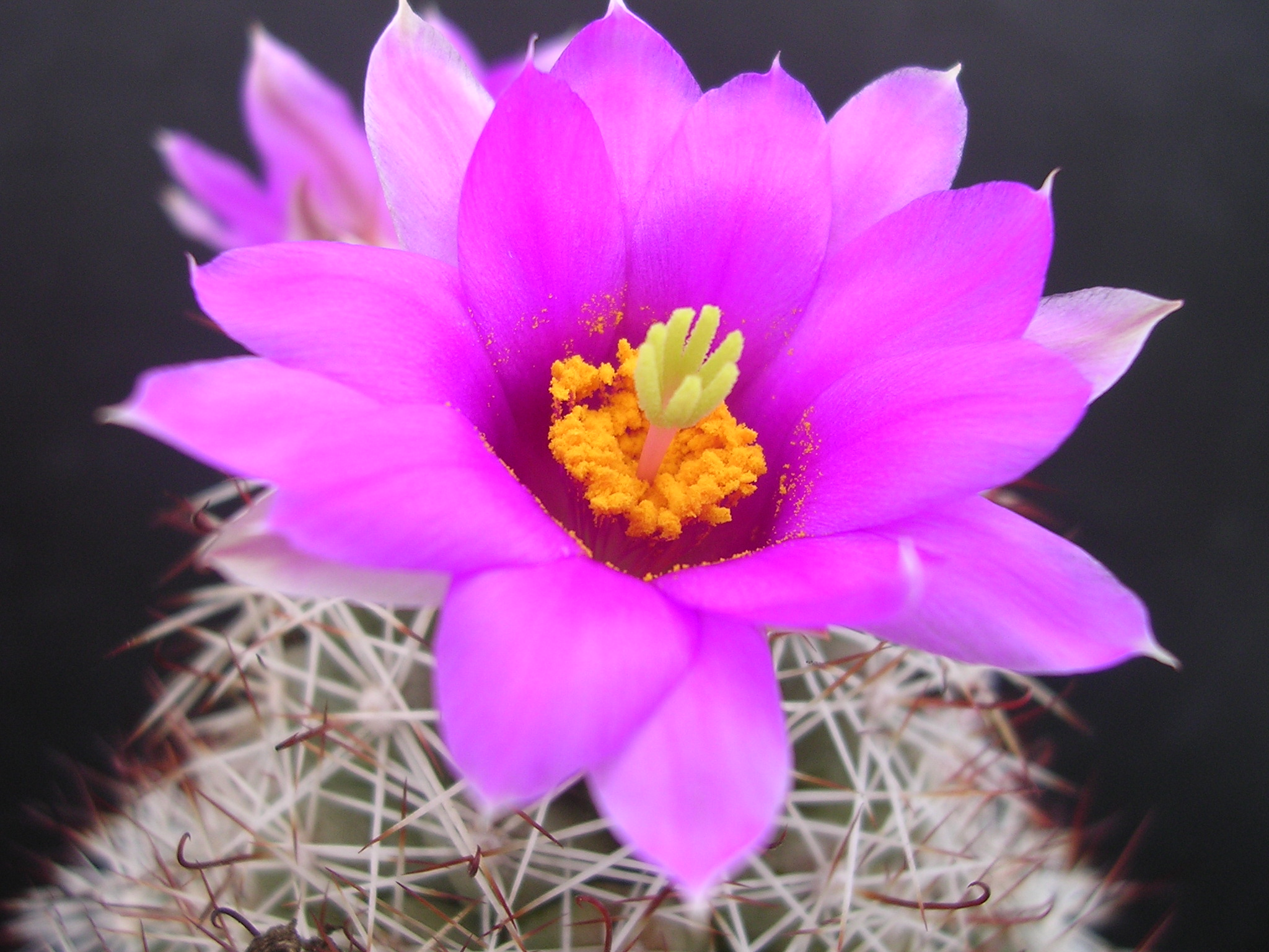 Mammillaria schumannii